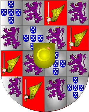 Arms od the Dukes of Terceira - Portugal Made by JSobral